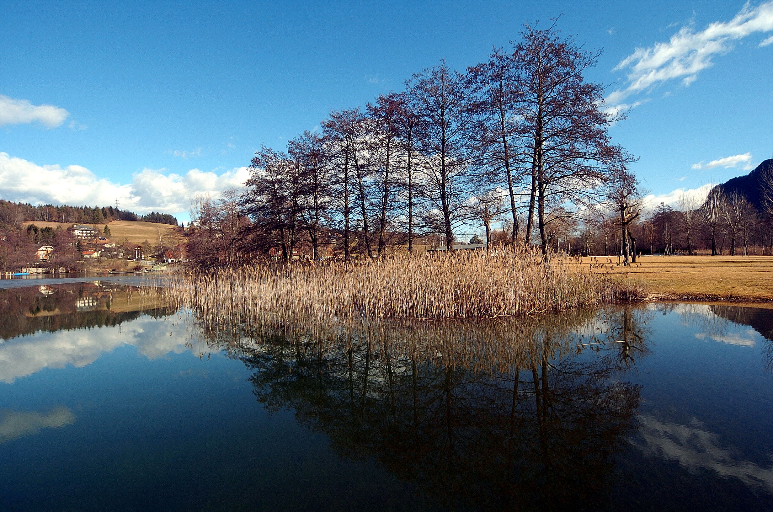 Alders behind reeds on the east-shore of Lake Keutschach, community Keutschach, district Klagenfurt-Land, Carinthia, Austria